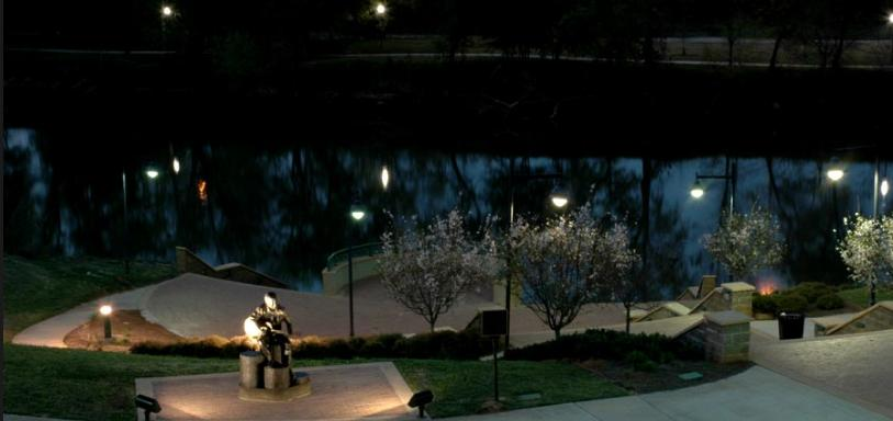 Otis Redding statue at Gateway Park, Macon, Georgia.